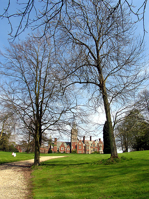 Aldermaston Court: Aldermaston. The house is in the north eastern section of the grid square. The picture was taken from the west looking towards the house which is west facing.